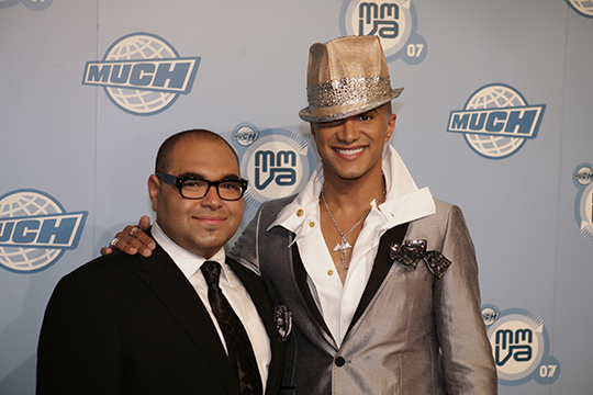 Nolé Marin and Jay Manuel where an attendee`s at the 2007 MuchMusic Video Awards, held the night of Sunday, June 17, 2007 in Toronto, Ontario, Canada.